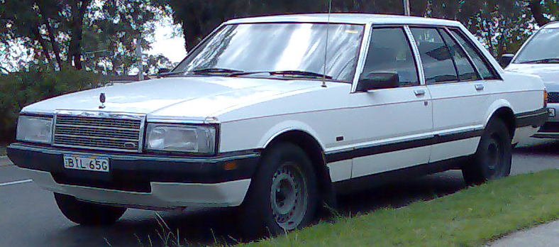 1986 Ford Fairlane (ZL) sedan. Photographed in Sutherland, New South Wales, Australia.